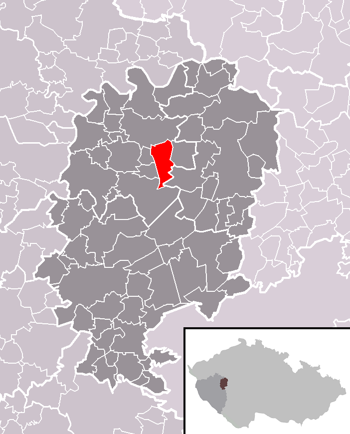 Location of Vejvanov municipality within Rokycany District and within identical administrative area of Rokycany as a Municipality with Extended Competence.